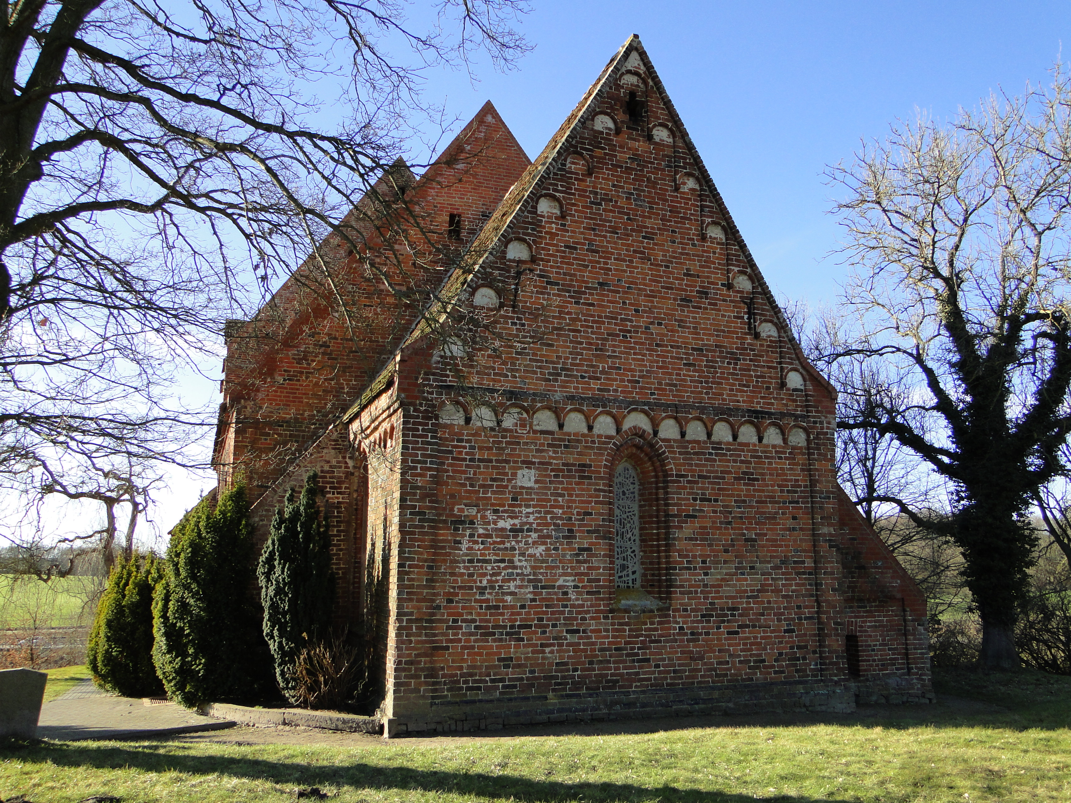 Church in/near Kirch Mummendorf, district Nordwestmecklenburg, Mecklenburg-Vorpommern, Germany